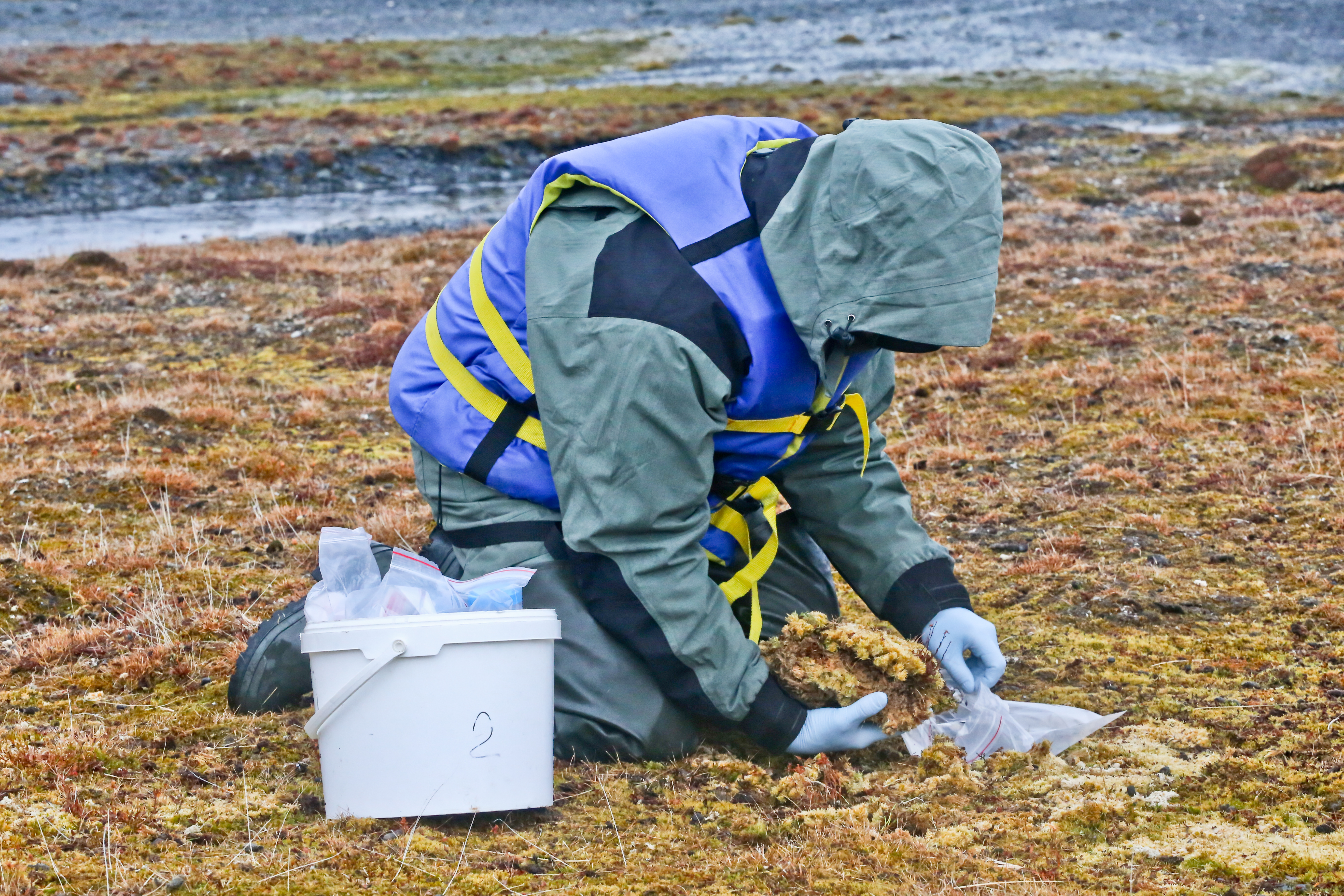 Russian researcher collecting material for laboratory research in the Gulf of Stepovoy New Earth.